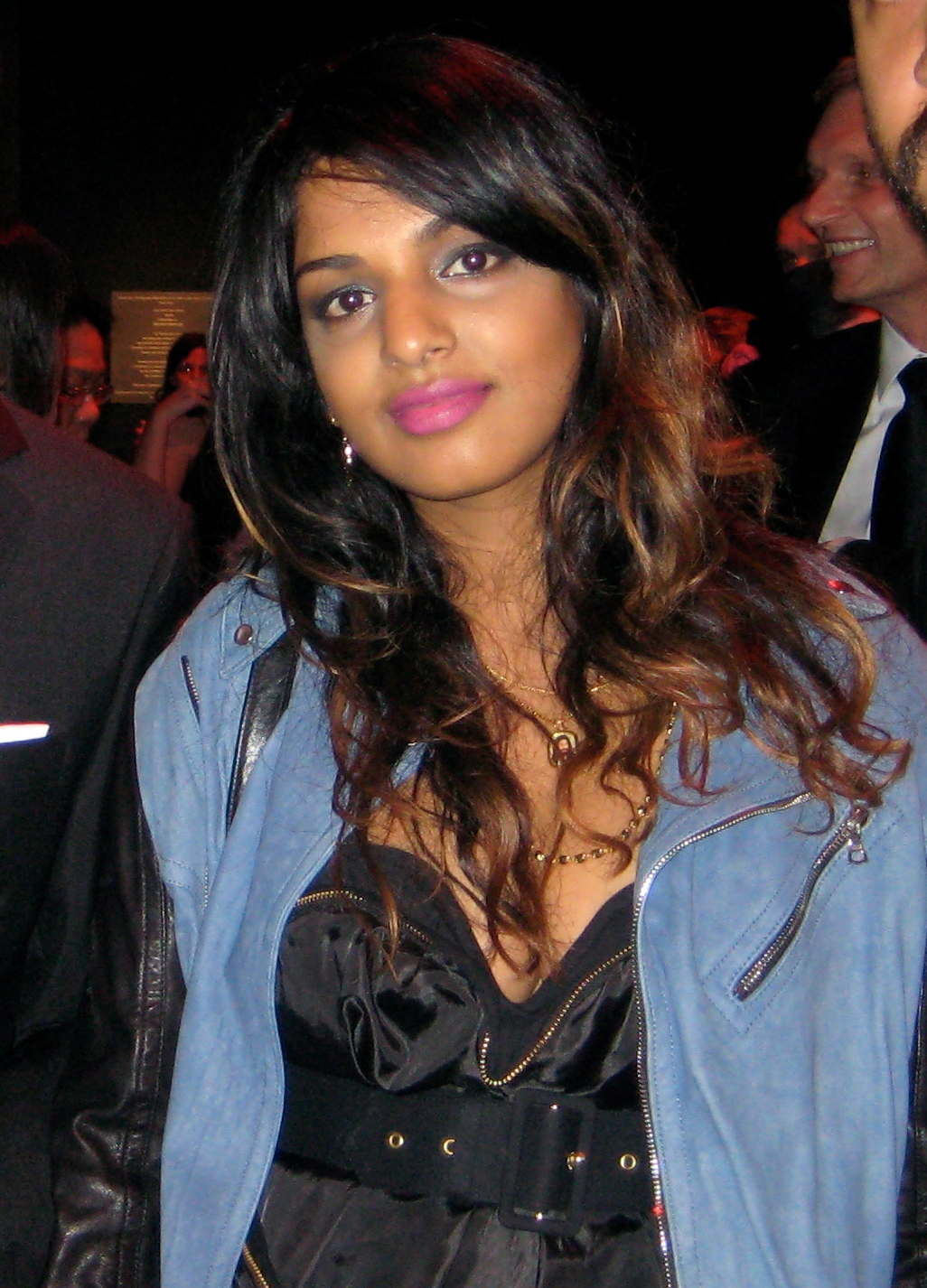 M.I.A. front profile